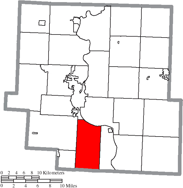 Map of the municipal and township boundaries of Muskingum County, Ohio, United States, as of the 2000 census, with the location of Brush Creek Township highlighted. Township borders are shown only in unincorporated areas in order to differentiate incorporated and unincorporated areas more clearly.